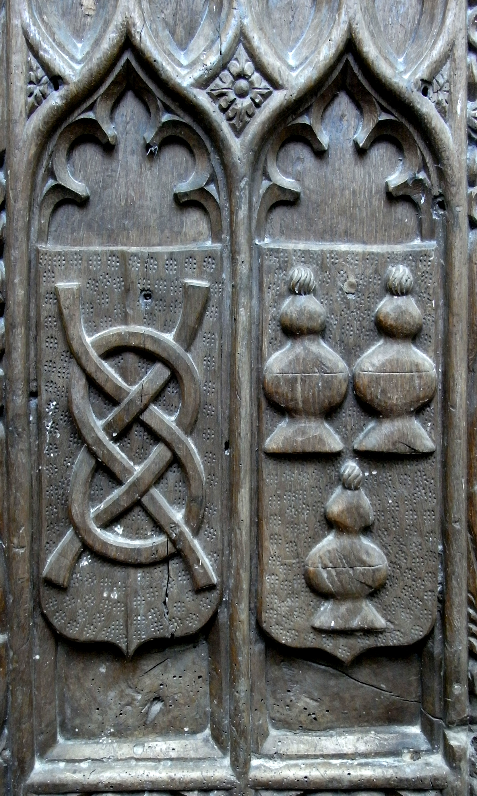 15th century bench end in Monkleigh Church, Devon, showing the Ormond knot and arms of Thomas Butler, 7th Earl of Ormond (c.1426-1515): Gules, three covered cups or(Debrett's Peerage, 1968, p.864). Both displayed within a gothic lancet. By marriage to the heiress of Hankford he held the manor of Annery in the parish of Monkleigh.